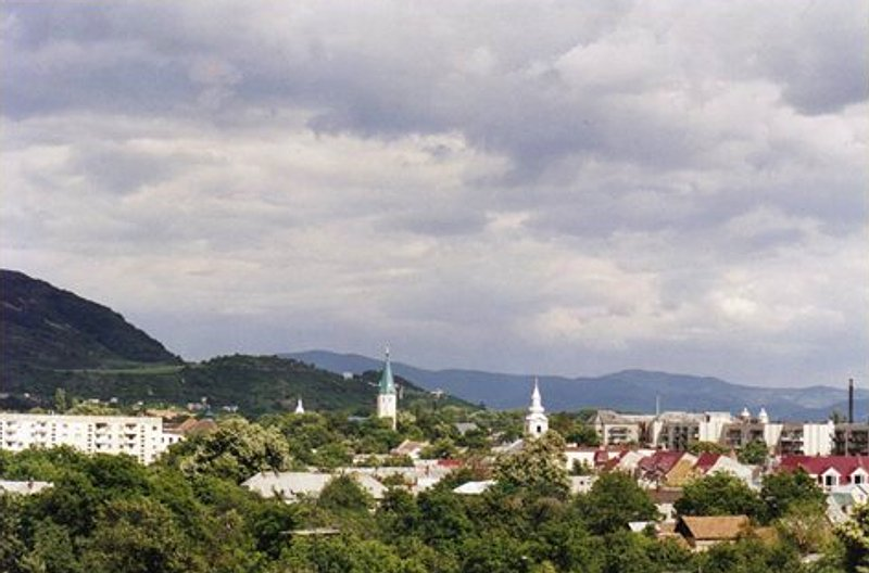 Central Vynohradiv looking towards Black Mountain